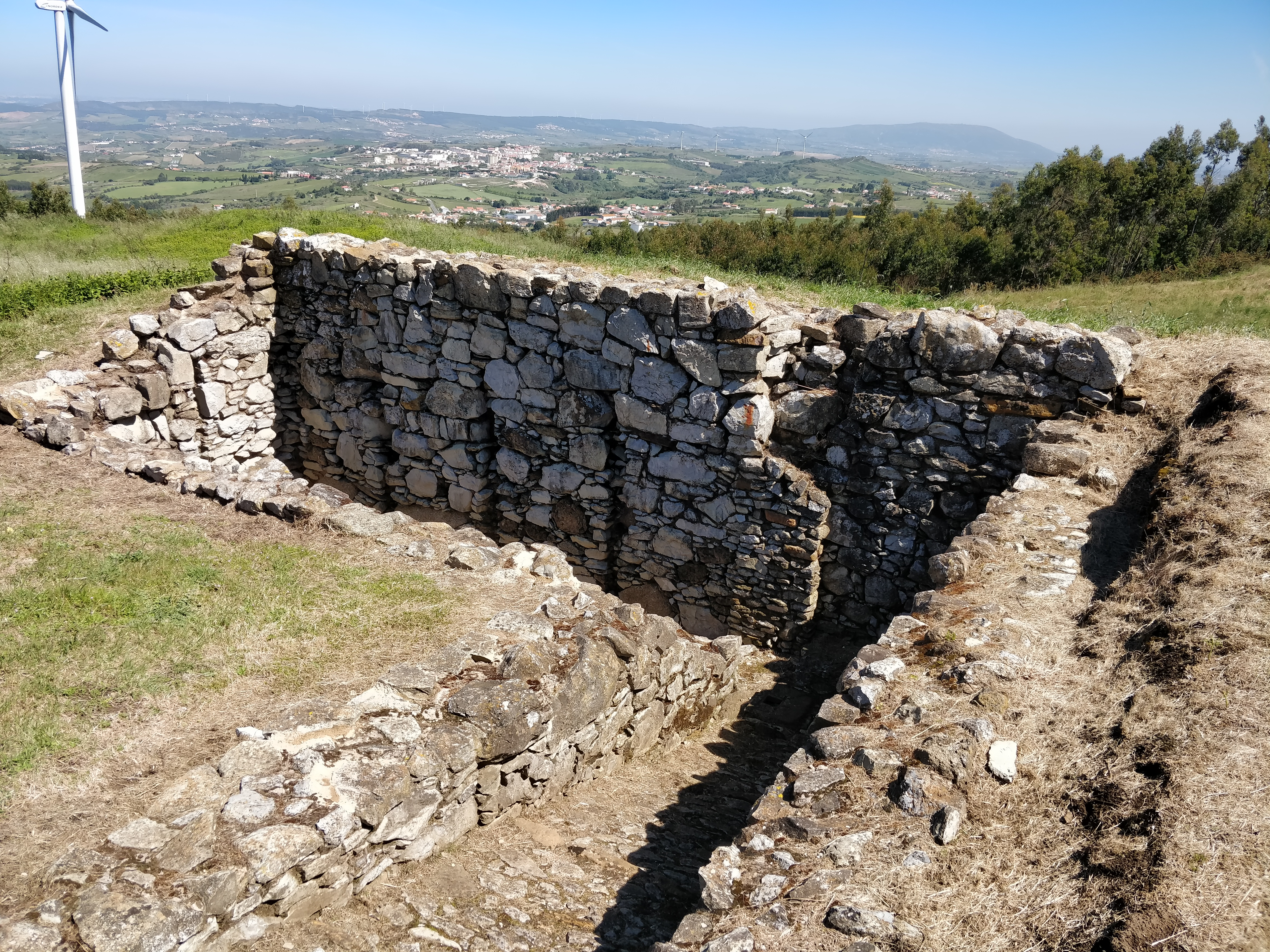 Fort of Alqueidão Powder Magazine. The Fort of Alqueidão was the largest fort on the Lines of Torres Vedras, just north of Lisbon, Portugal